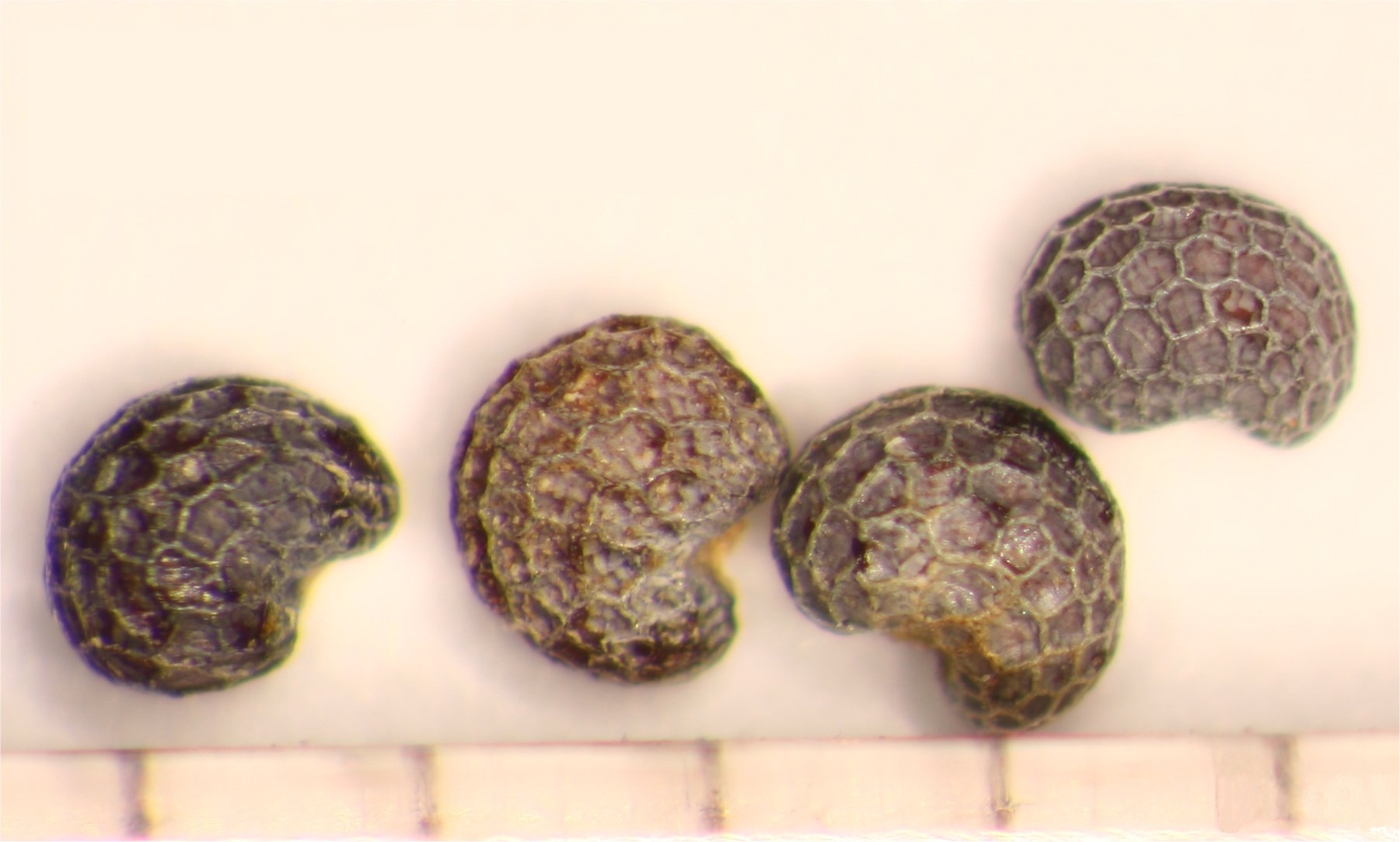 Papaver somniferum seeds 20x